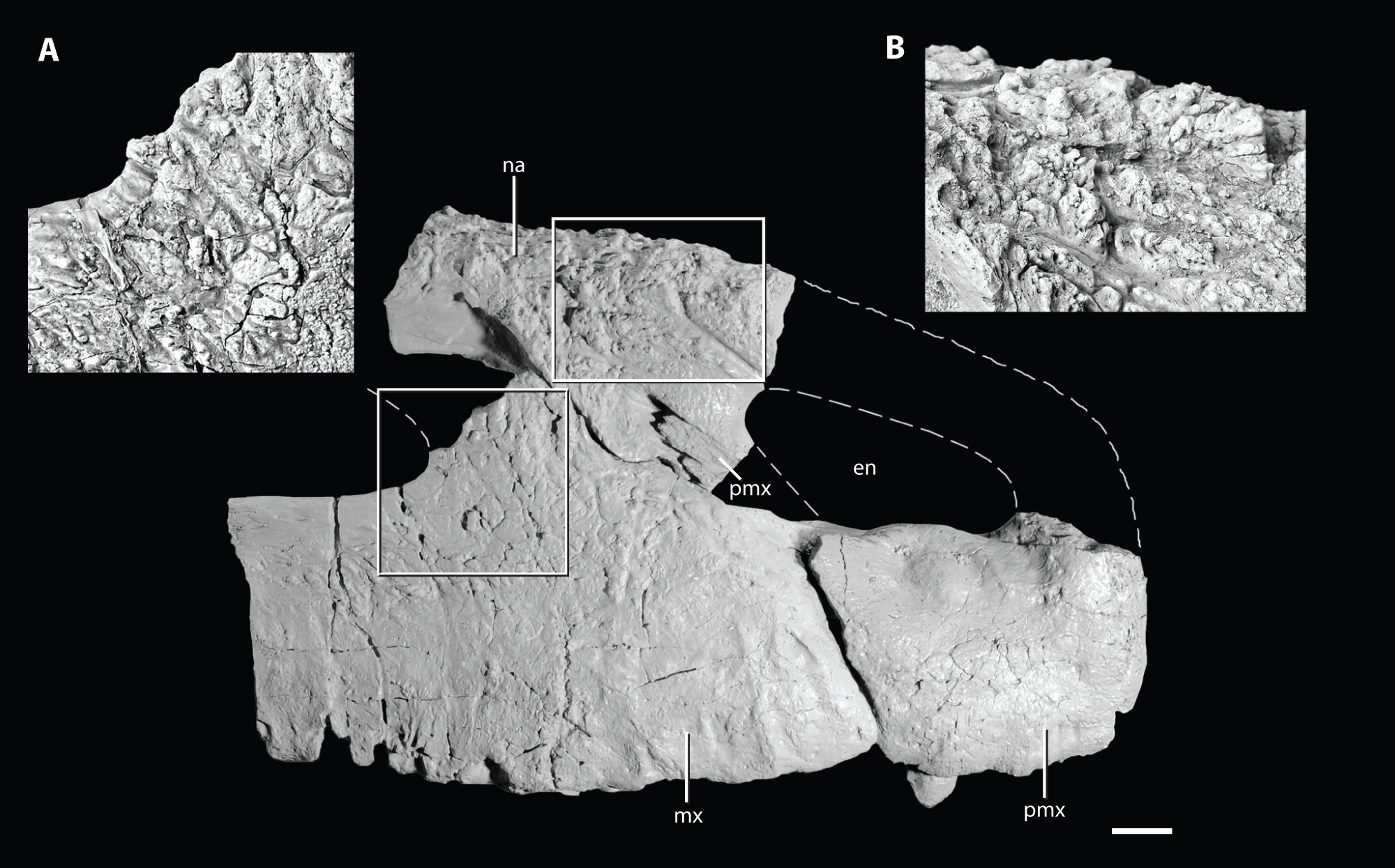 Unique sculpturing on the anterior portion of the skull of the holotype of Asperoris mnyama (NHMUK PV R36615) in right lateral view. Close up of the sculpturing on the dorsal process of the maxilla (A) and close up of the sculpturing of the nasal (B). Scale = 1 cm. Abbreviations: en, external naris; mx, maxilla; na, nasal; pmx, premaxilla.